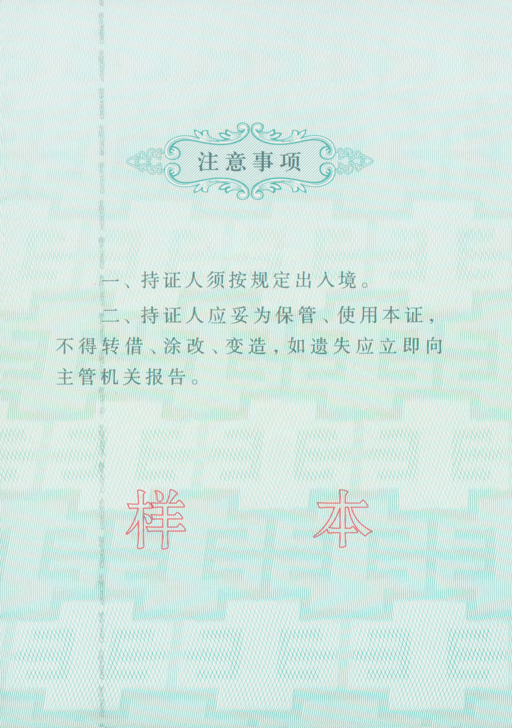 Note Page of People's Republic of China Exit and Entry Permit